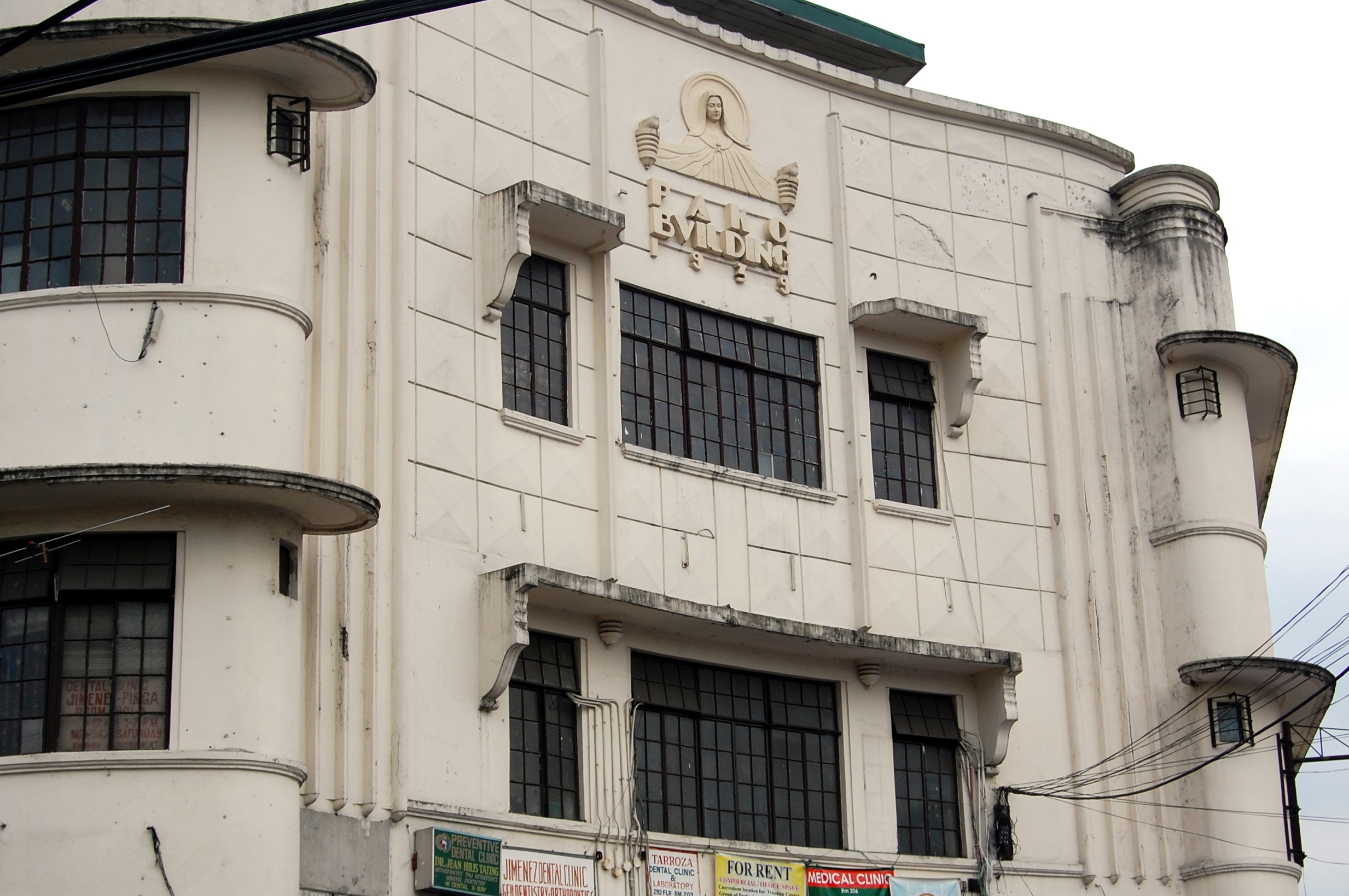 View of Pako Building along Pedro Gil Street